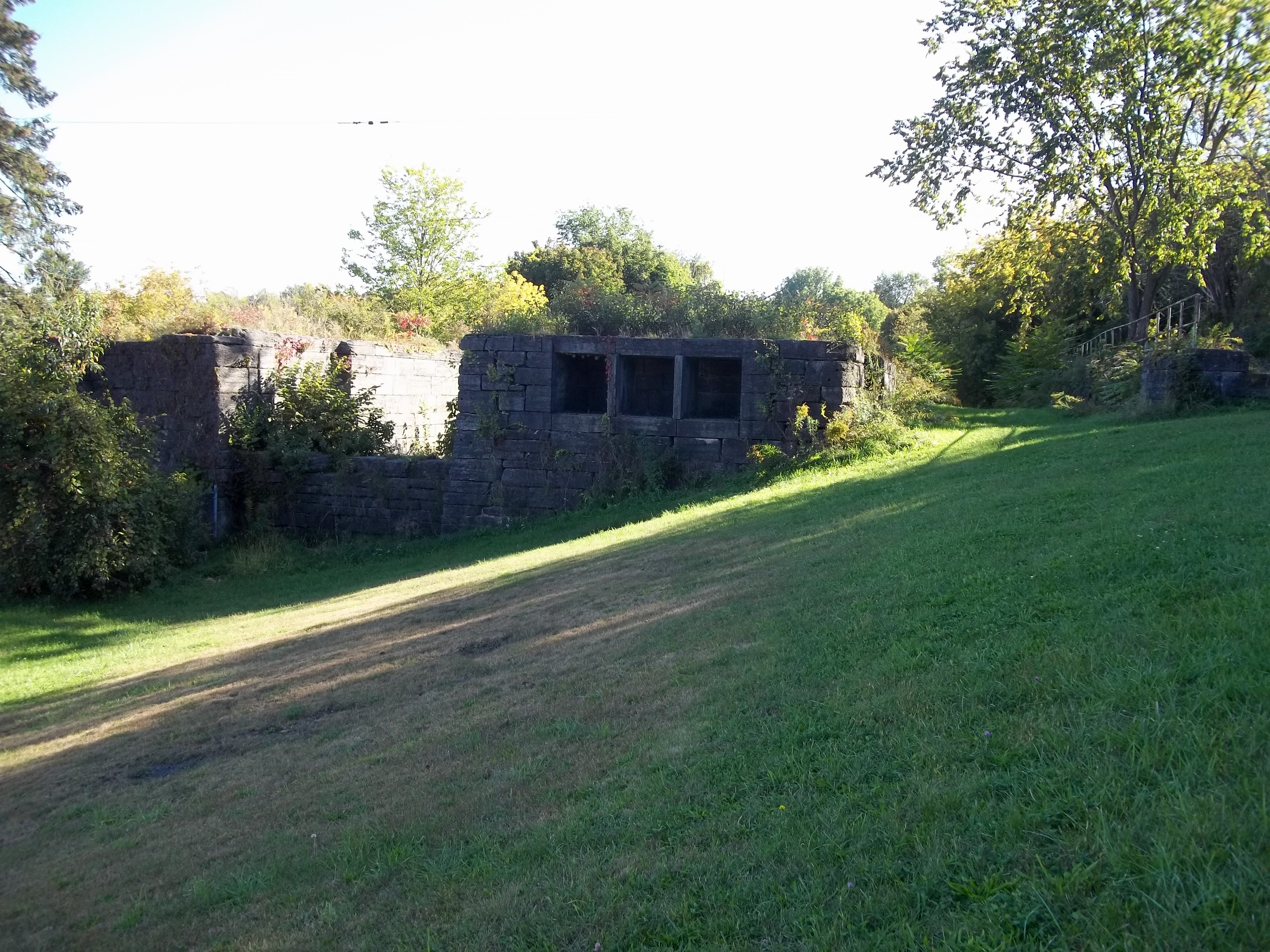 Enlarged Erie Canal Historic District (Discontiguous), City of Cohoes, roughly from S to NW city boundary Cohoes. Lock 18